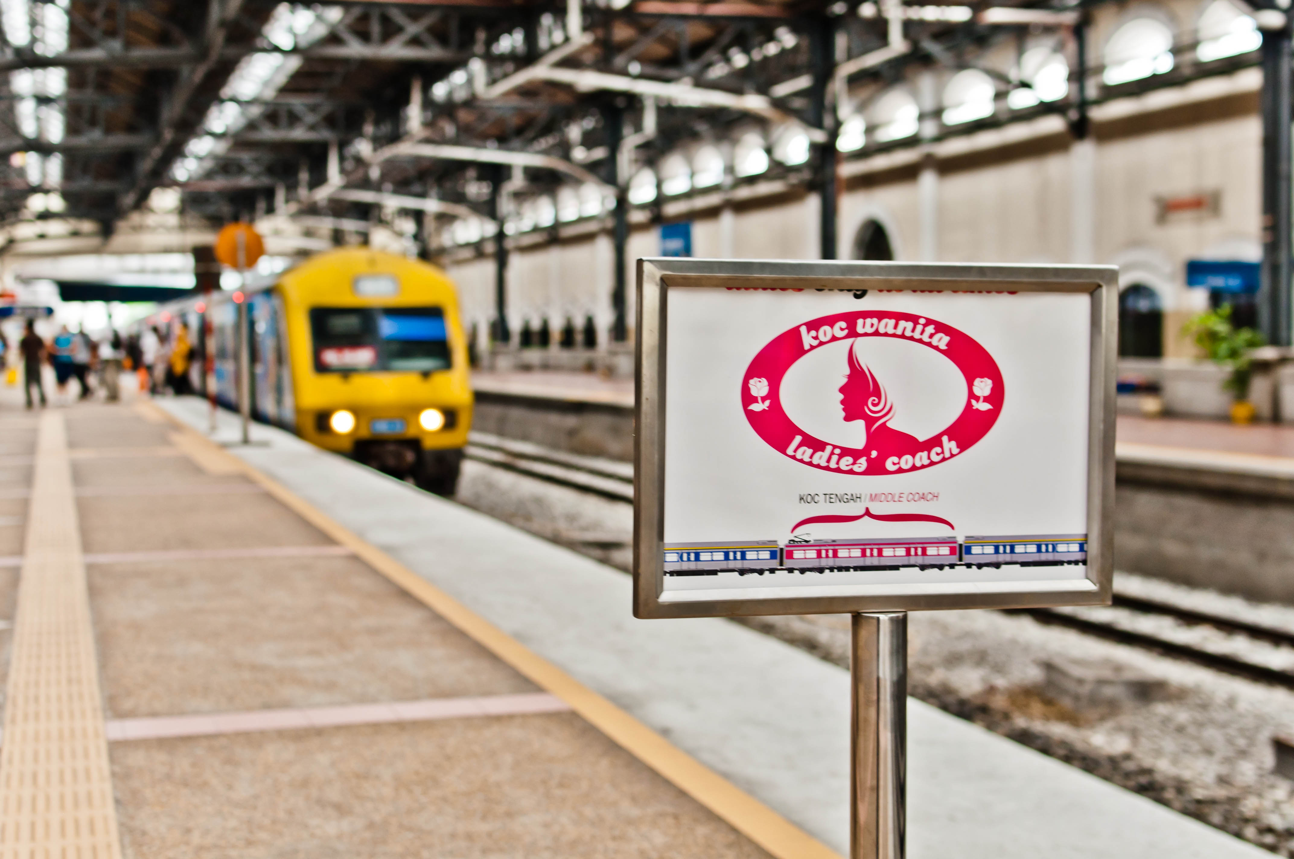 A sign in the Kuala Lumpur commuter railroad station indicates the area for loading the "Ladies Coach" ("koc wanita" in Bahasa Malay).